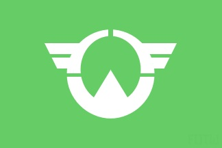 Flag of Shibayama Chiba